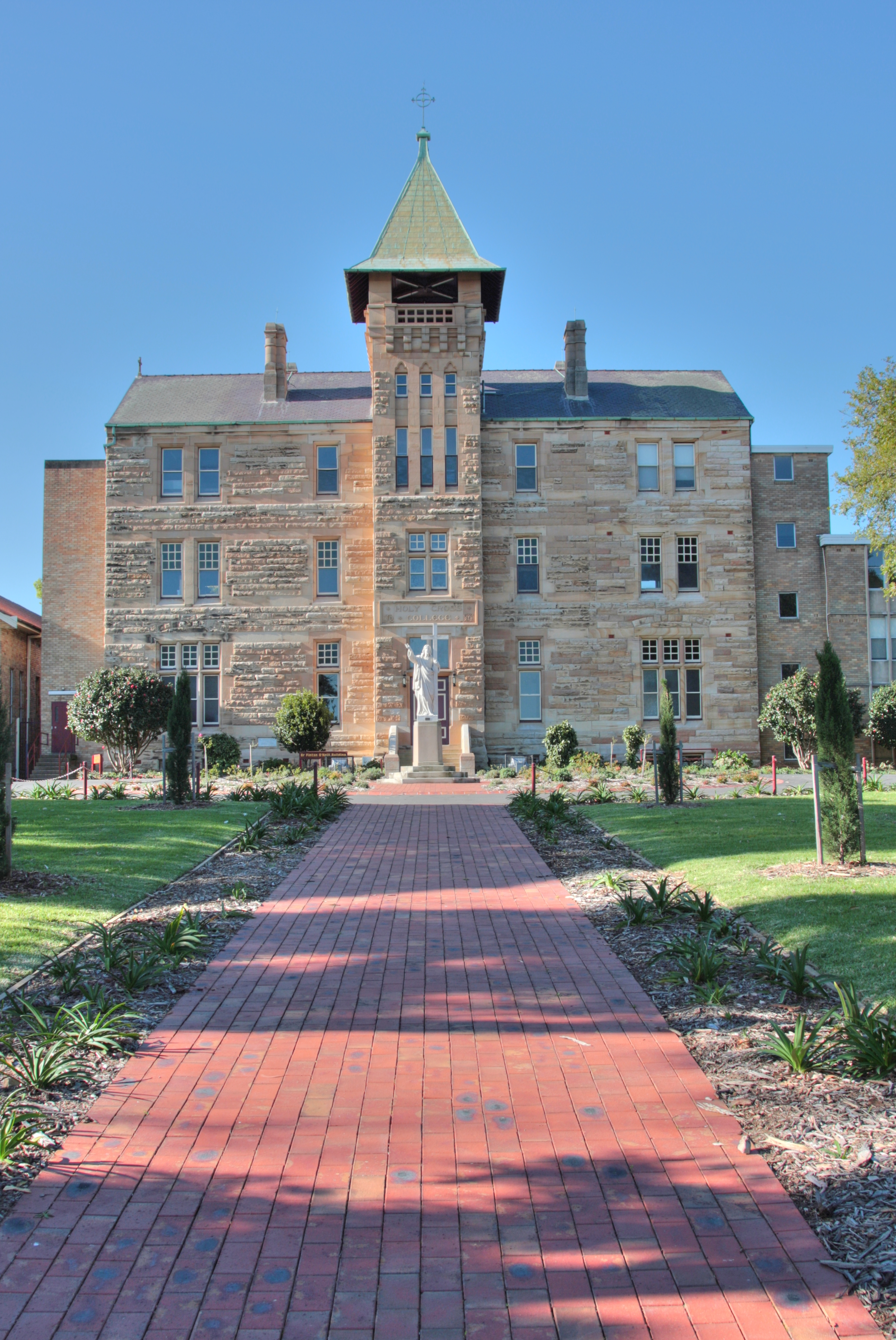 Holly cross college Ryde, New South Wales